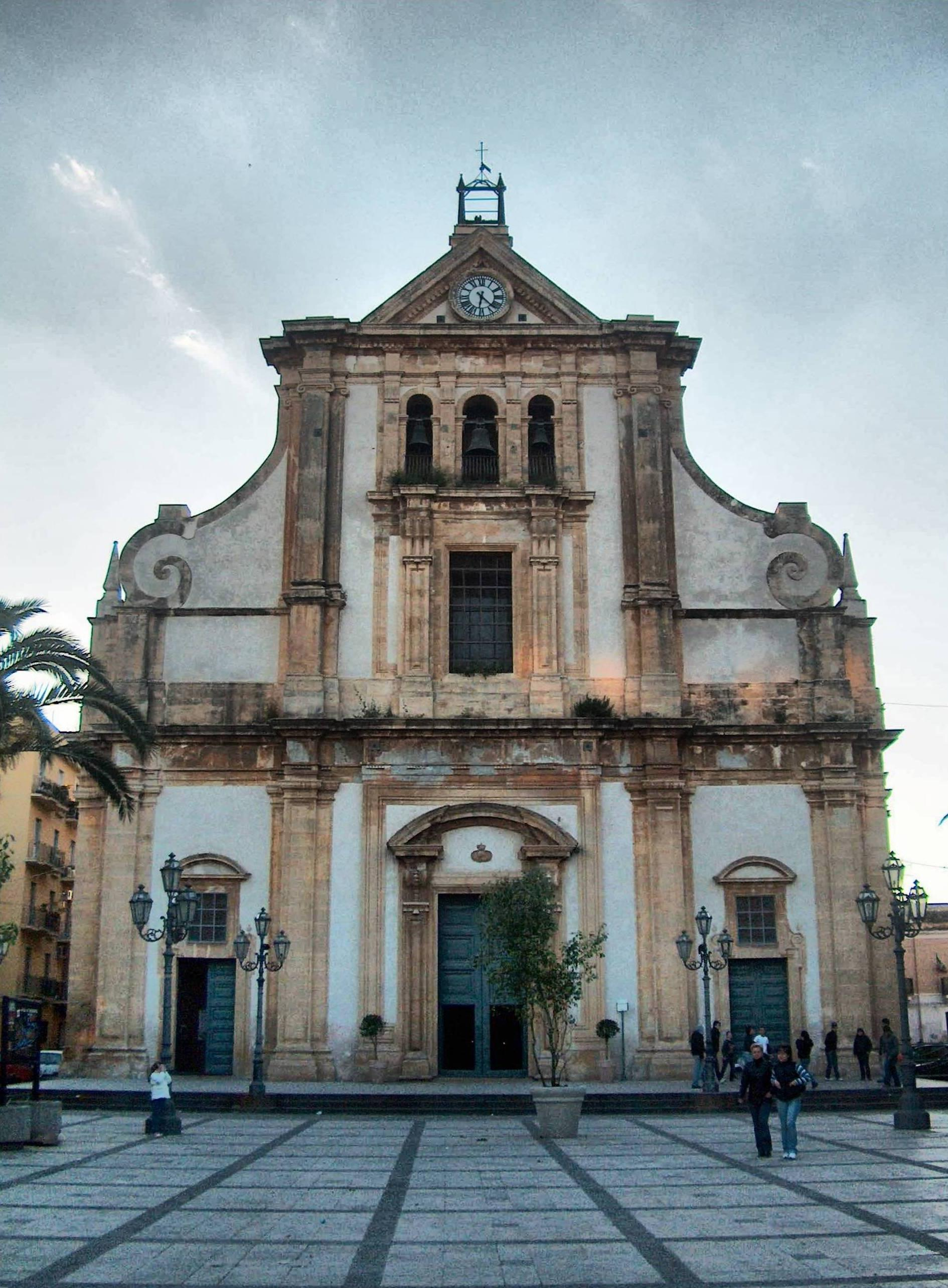 "Chiesa di Santa Maria Assunta" (a.k.a. "Chiesa Madre", "Mother Church" in English) facade, Augusta, Italy. Derivated version: lighting corrected